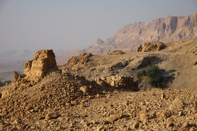 View of Judean Desert from mount. Yair, Israel (Ein Gedi nature reserve)